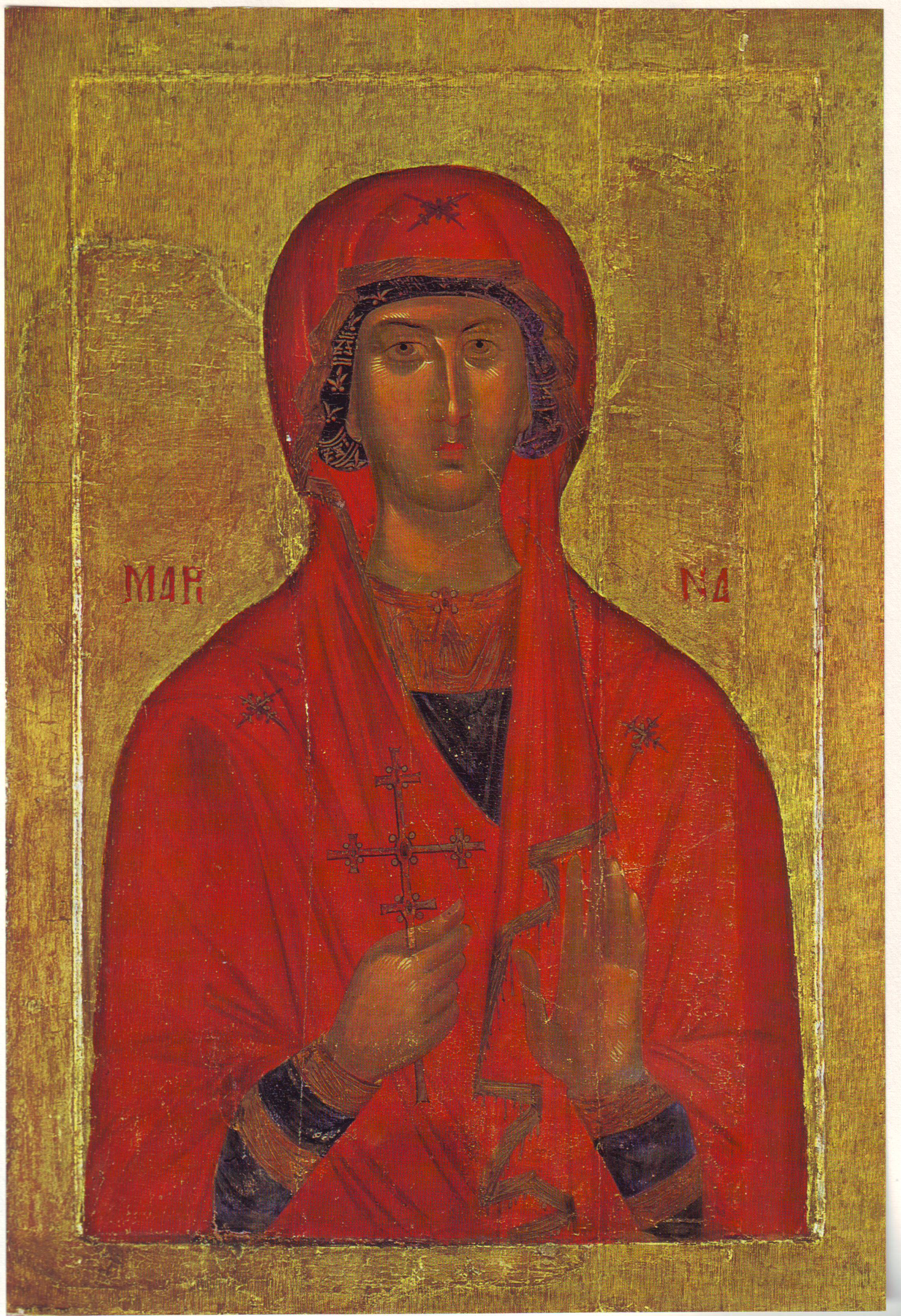 Icon of Saint Marina in the Byzantine and Christian Museum in Athens (15th century). Icon that must have been created in Crete, in the late 14th c. or early 15th c., by an artist closely associated with workshops of Constantinople. Origin: Church of Hagios Gerasimos, Argostoli, Kephallenia Creator: Workshops of Constantinople Measurement: 115 x 78 cm Exhibit Number: ΒΧΜ 01546